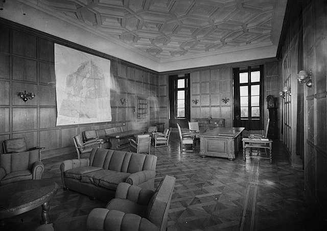 Queen Maud's living room at the Royal Palace in Oslo, after use as Nazi collaborator Vidkun Quisling's office during the 1940-1945 German occupation of Norway.